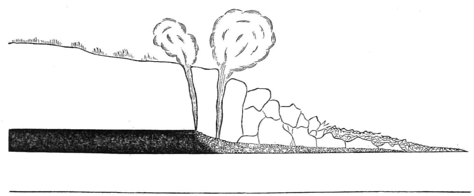 Longitudonal section of burning lignite